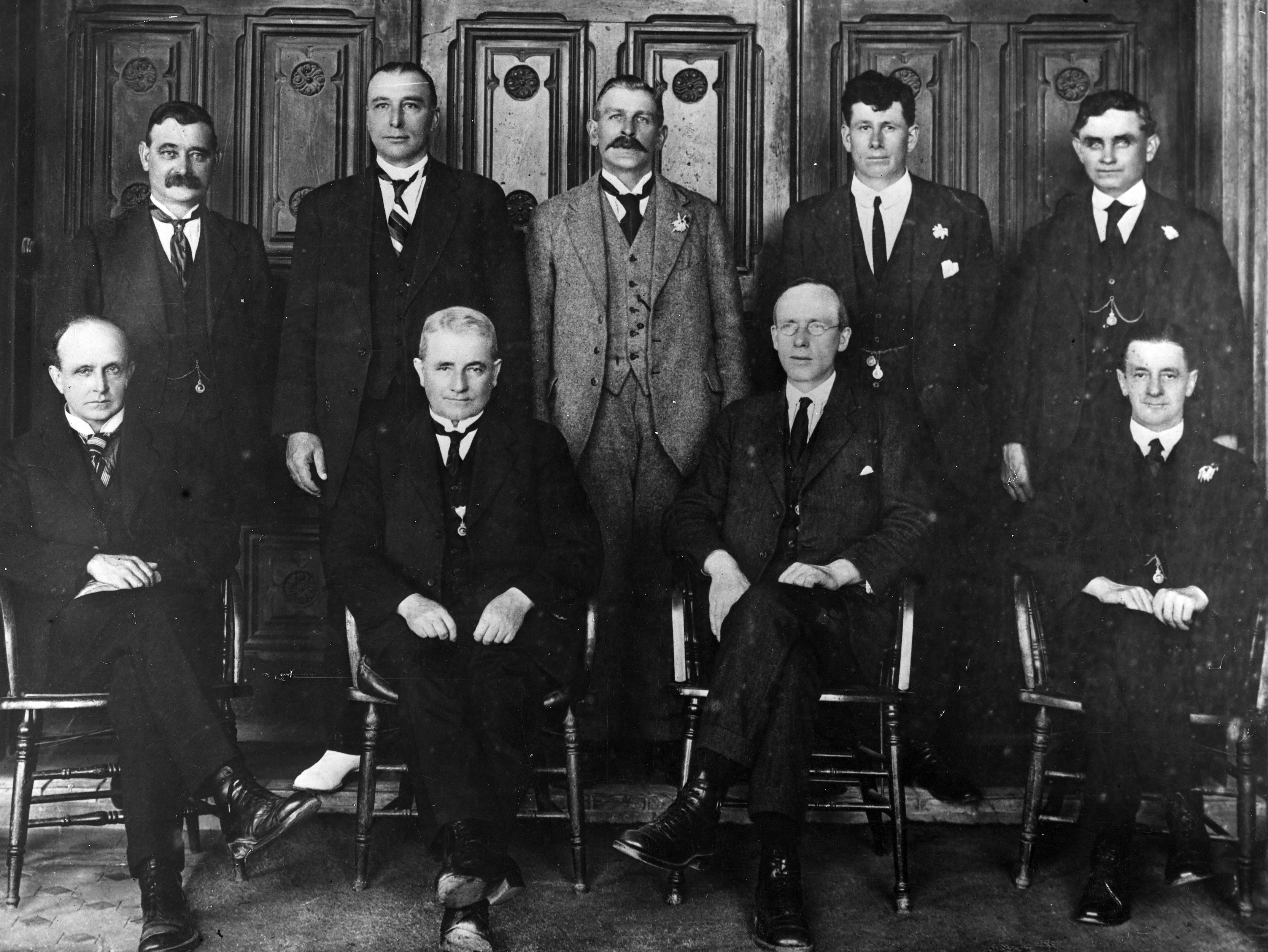 Shows members of New Zealand Parliamentary Labour Party. They are, back row: - Ted Howard, Bill Parry, James Wright Munro, Daniel Giles Sullivan, Michael Joseph Savage, seated: James McCombs, Harry Holland, Peter Fraser and Fred Bartram.